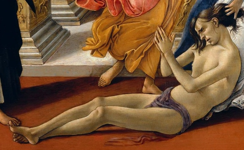 Botticelli made this painting on the description of a painting by Apelles, a Greek painter of the Hellenistic Period. Apelles' works have not survived, but Lucian recorded details of one in his On Calumny: On the right of it sits Midas with very large ears, extending his hand to Slander while she is still at some distance from him. Near him, on one side, stand two women—Ignorance and Suspicion. On the other side, Slander is coming up, a woman beautiful beyond measure, but full of malignant passion and excitement, evincing as she does fury and wrath by carrying in her left hand a blazing torch and with the other dragging by the hair a young man who stretches out his hands to heaven and calls the gods to witness his innocence. She is conducted by a pale ugly man who has piercing eye and looks as if he had wasted away in long illness; he represents envy. There are two women in attendance to Slander, one is Fraud and the other Conspiracy. They are followed by a woman dressed in deep mourning, with black clothes all in tatters—she is Repentance. At all events, she is turning back with tears in her eyes and casting a stealthy glance, full of shame, at Truth, who is slowly approaching.it=L'opera è ispirata al celebre perduto dipinto di Appelle descritto dalli scrittore greco Luciano nel "De Calumnia" e da Leon Battista Alberti nel "De Pictura". La scena raffigura, da destra, il Re Mida mal consigliato dal Sospetto e dall'Ignoranza, il Livore come un uomo barbato col cappuccio, la Calunnia - con una face - che trascina il calunniato, la Frode e l'Insidia dietro di lei, e la Penitenza come una vecchia in abiti laceri che guarda alla Verità nuda e con lo sguardo levato al cielo.